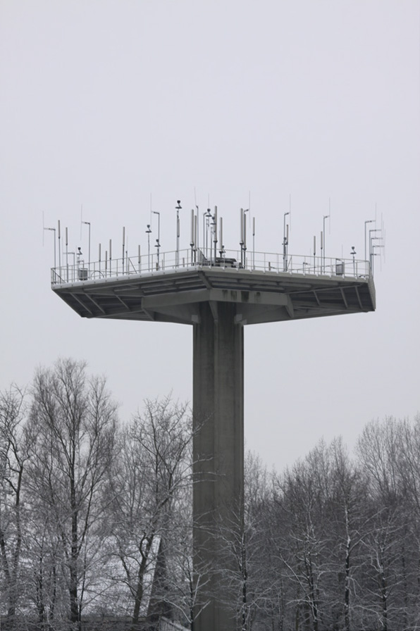 VHF Comm station at Amsterdam Airport Schiphol